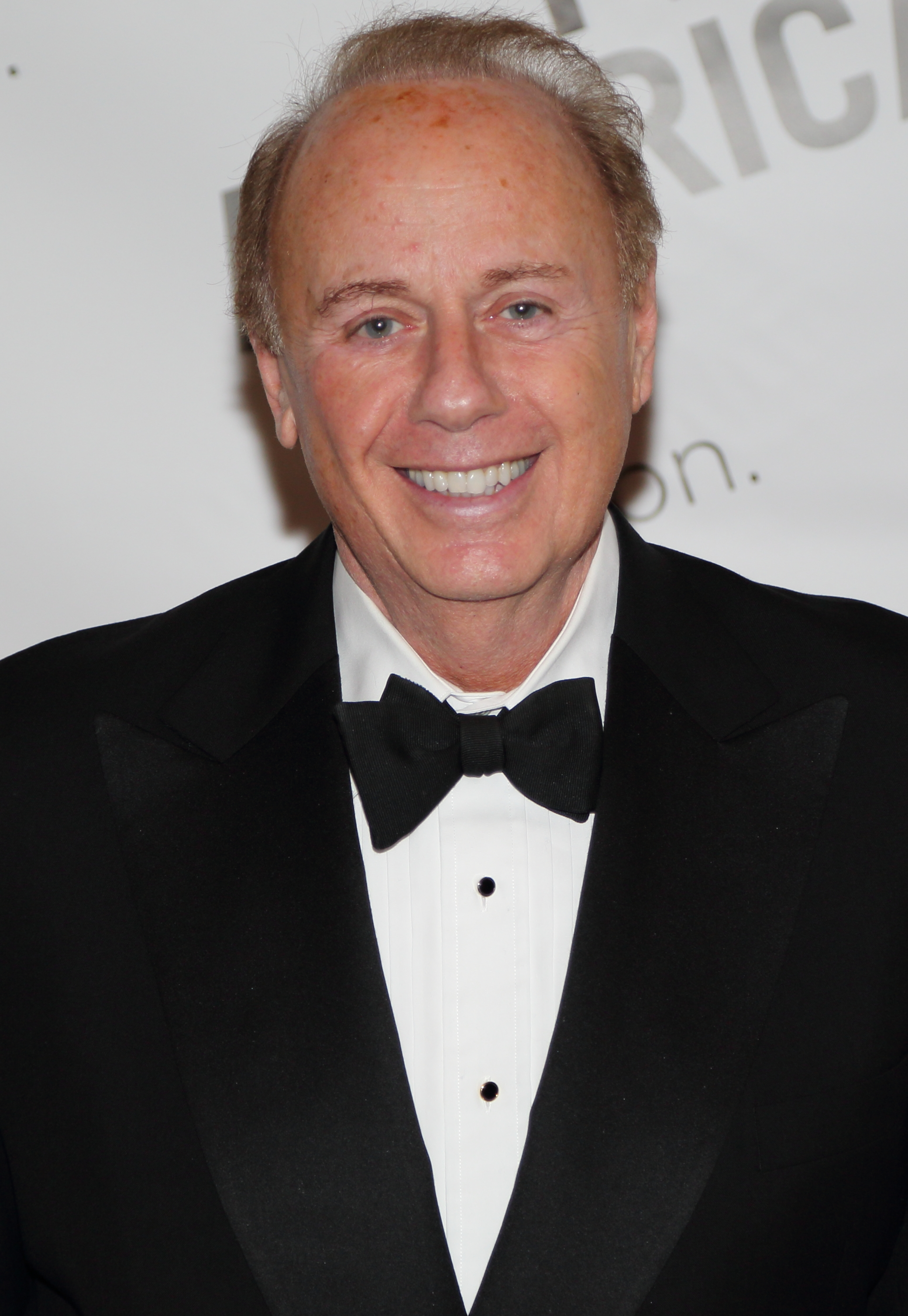 Rosenblatt at Pen America/Free Expression Literature. © Ed Lederman/PEN American Center